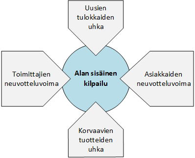 Represents Porter's five forces (of competition analysis) in Finnish.